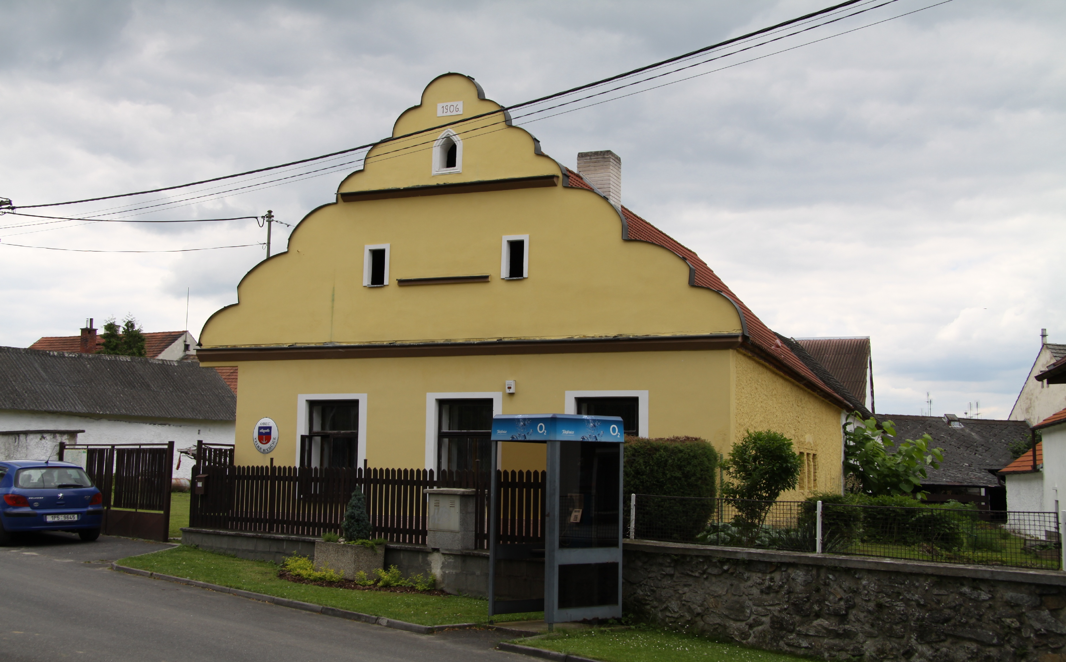 Velké Hydčice village in Klatovy District, Czech Republic. Municipitality office. This photograph was taken within the scope of the 'Czech Municipalities Photographs' grant.